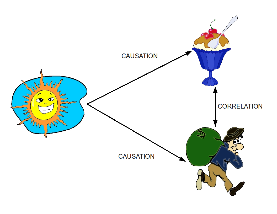 This is a drawing illustrating the relationship between correlation and causation. It depicts a correlation between ice cream consumption and crime, but shows that the actual cause is temperature.